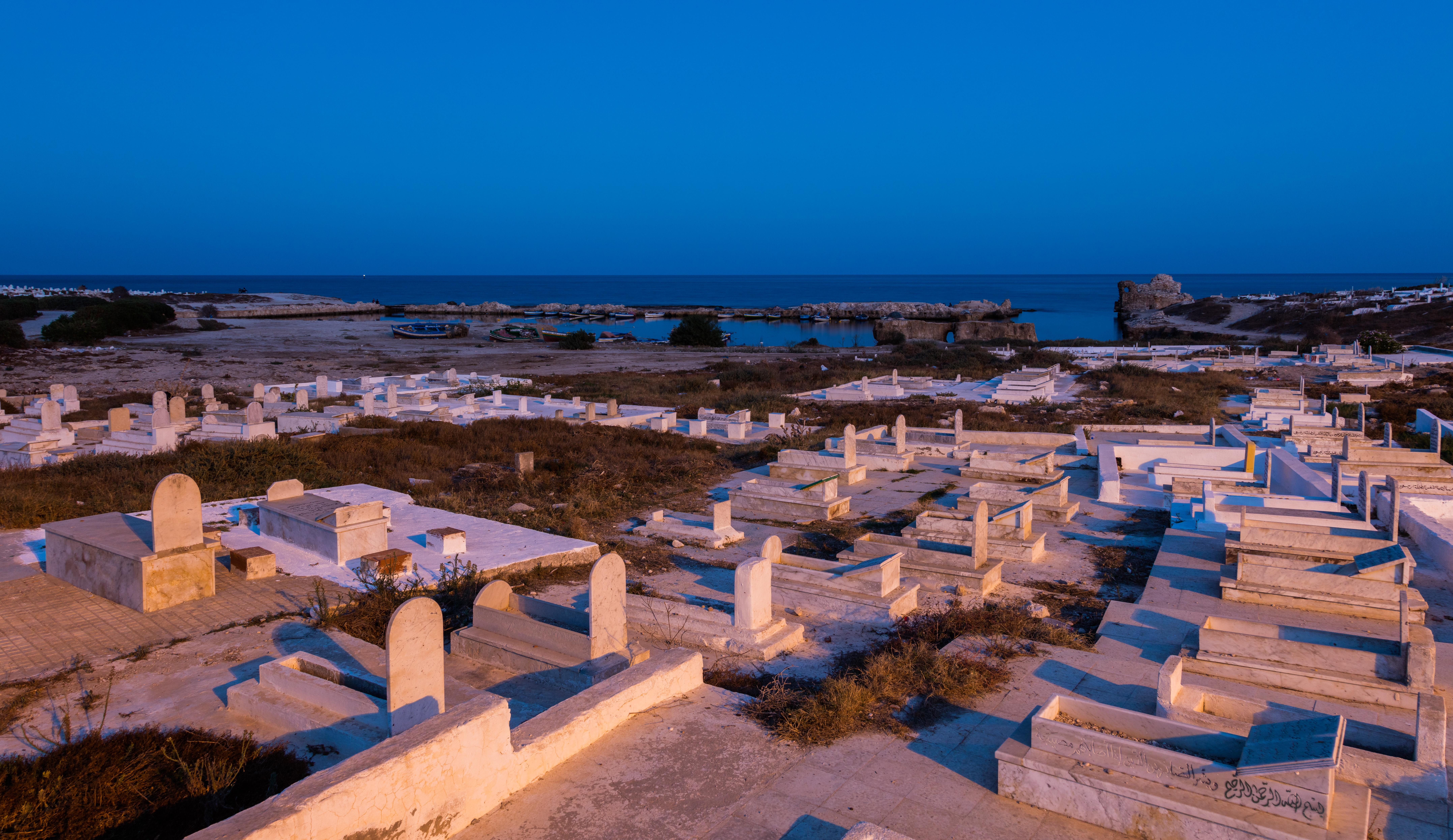 Marine cemetery, Mahdia, Tunisia